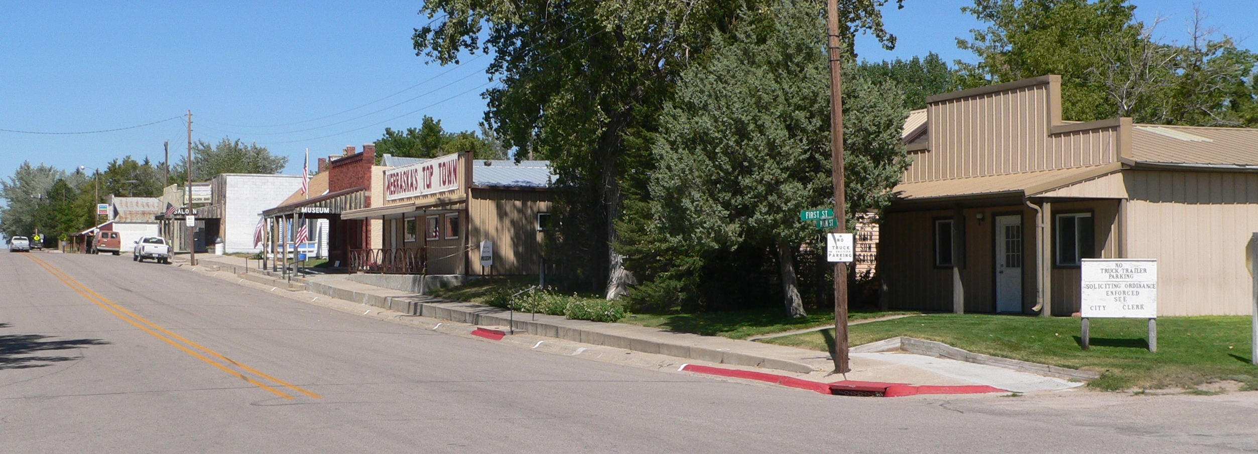 Harrison, Nebraska: Main Street (Nebraska Highway 29), looking northeast from about 1st Street.